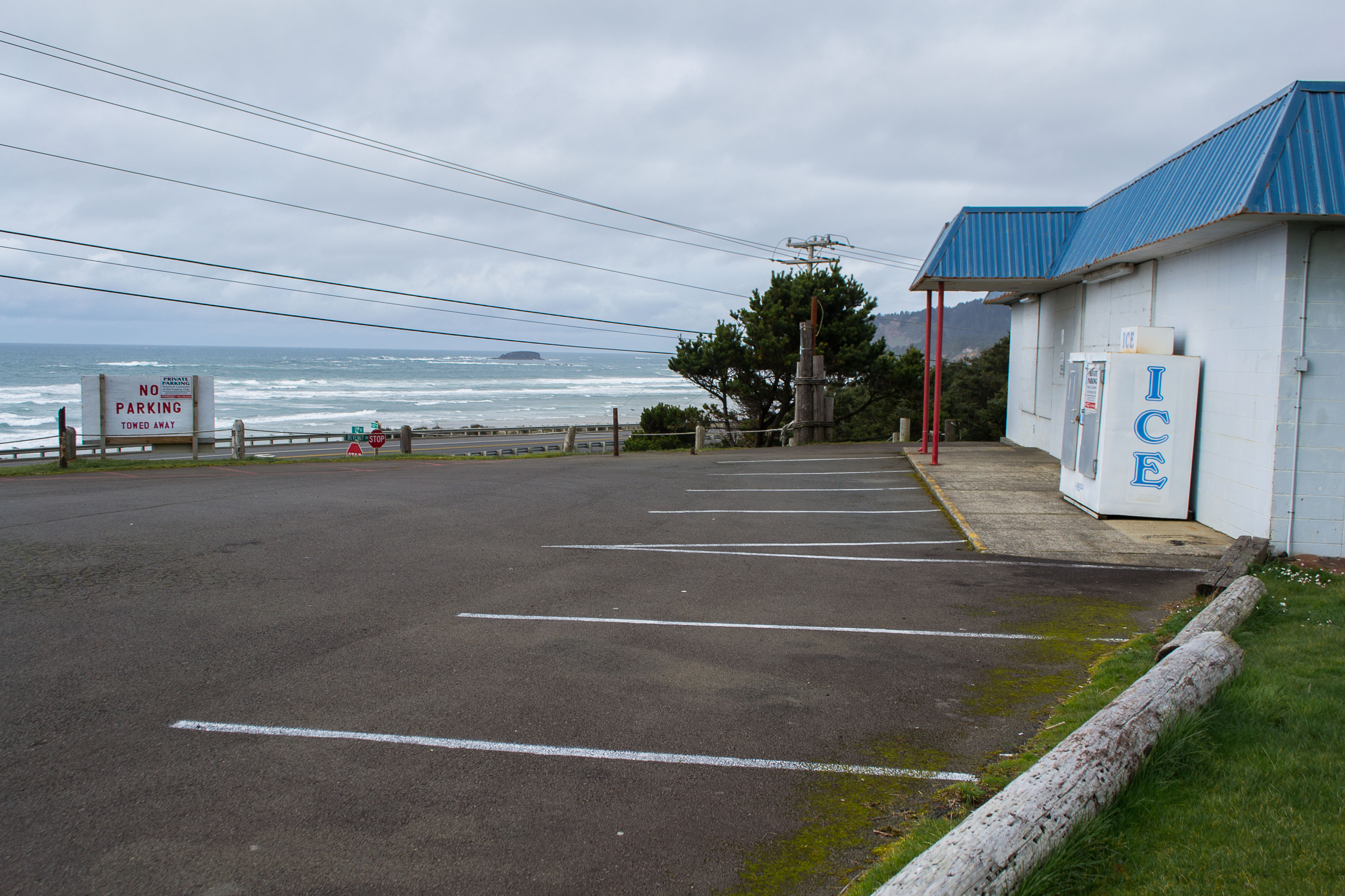 The town of Beverly Beach, Oregon, overlooks Beverly Beach